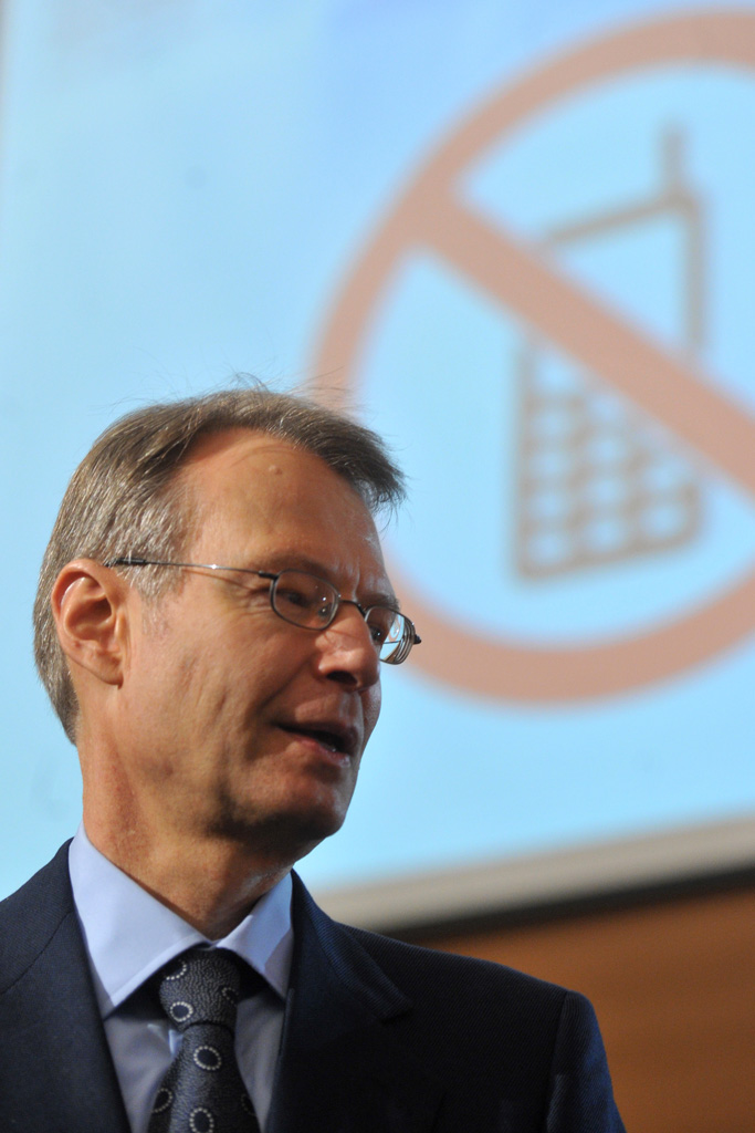 “Gaidar Forum 2012. Second Day.”. Yuha Kahonen, chief of the IMF mission in Russia, attending the Gaidar Forum 2012.